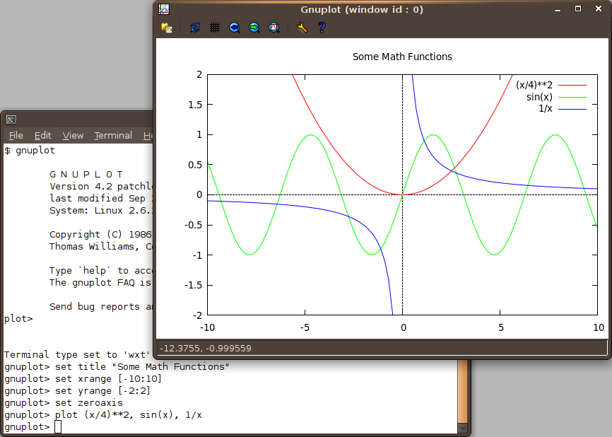 Gnuplot in action (running under Ubuntu 9.04): In the foreground a 'wxt' window containing a plot of the functions (x/4)^2, sin(x) and 1/x. In the background a terminal running gnuplot.